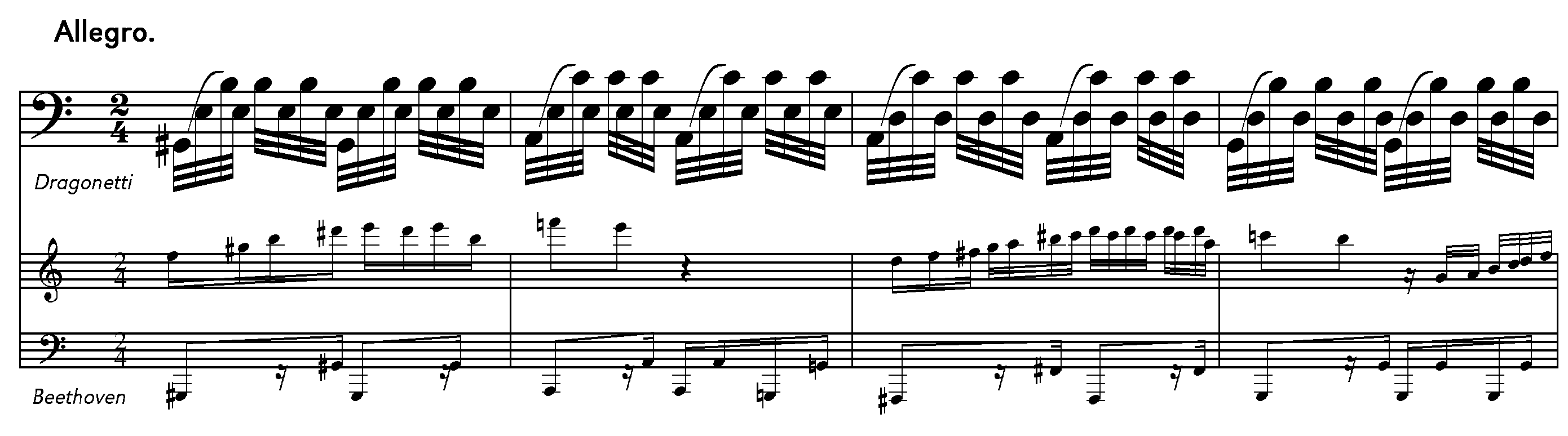 Cello Sonata Op. 5 Nr. 2 (Beethoven).